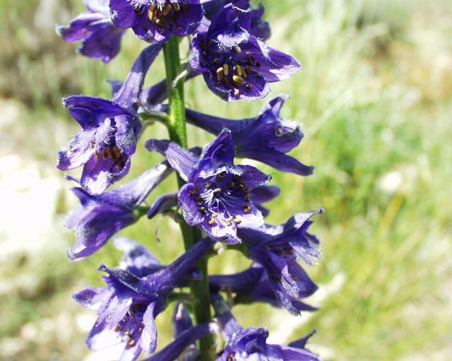 (en) Delphinium fissum, a photography originating of the internet site The accord of the autor, H. Brisse, is here. (fr) Dauphinelle fendue (Delphinium fissum), une photographie issue du site internet L'accord de l'auteur, H. Brisse, se situe ici. (it)Speronella lacerata